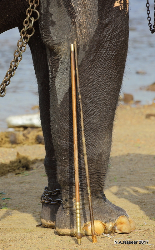 Captive Elephants of Kerala, Cruelty against elephants, Aanapremam, Thrissur Pooram, Festivals of Kerala, Elephants in captivity, Temples of Kerala